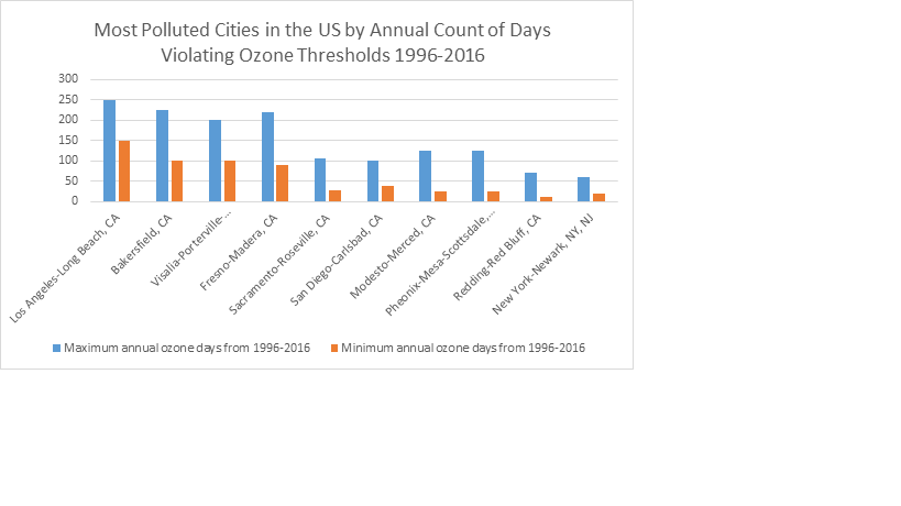 A graph of the top ten most polluted cities in the US, eight of which are in California. The blue bar represents the highest annual number of days the city violated pollution requirements during the period 1996-2006, while the orange bar represents the lowest annual number of days violating requirements.